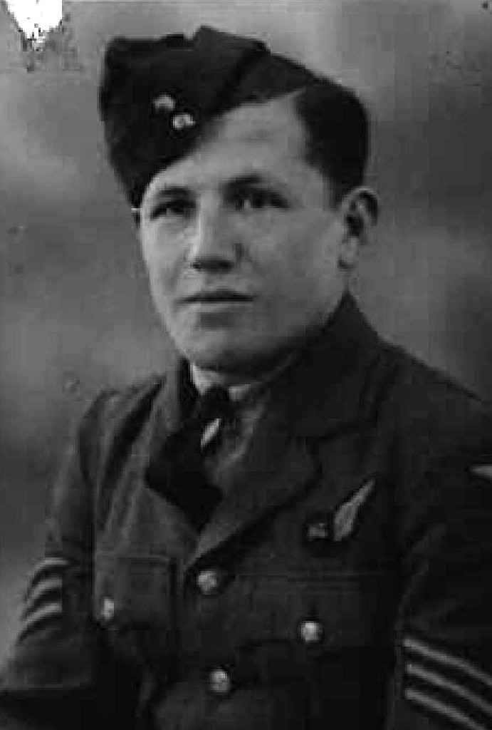 Photo of Bertie Lewis aka "Butch" in RAF uniform